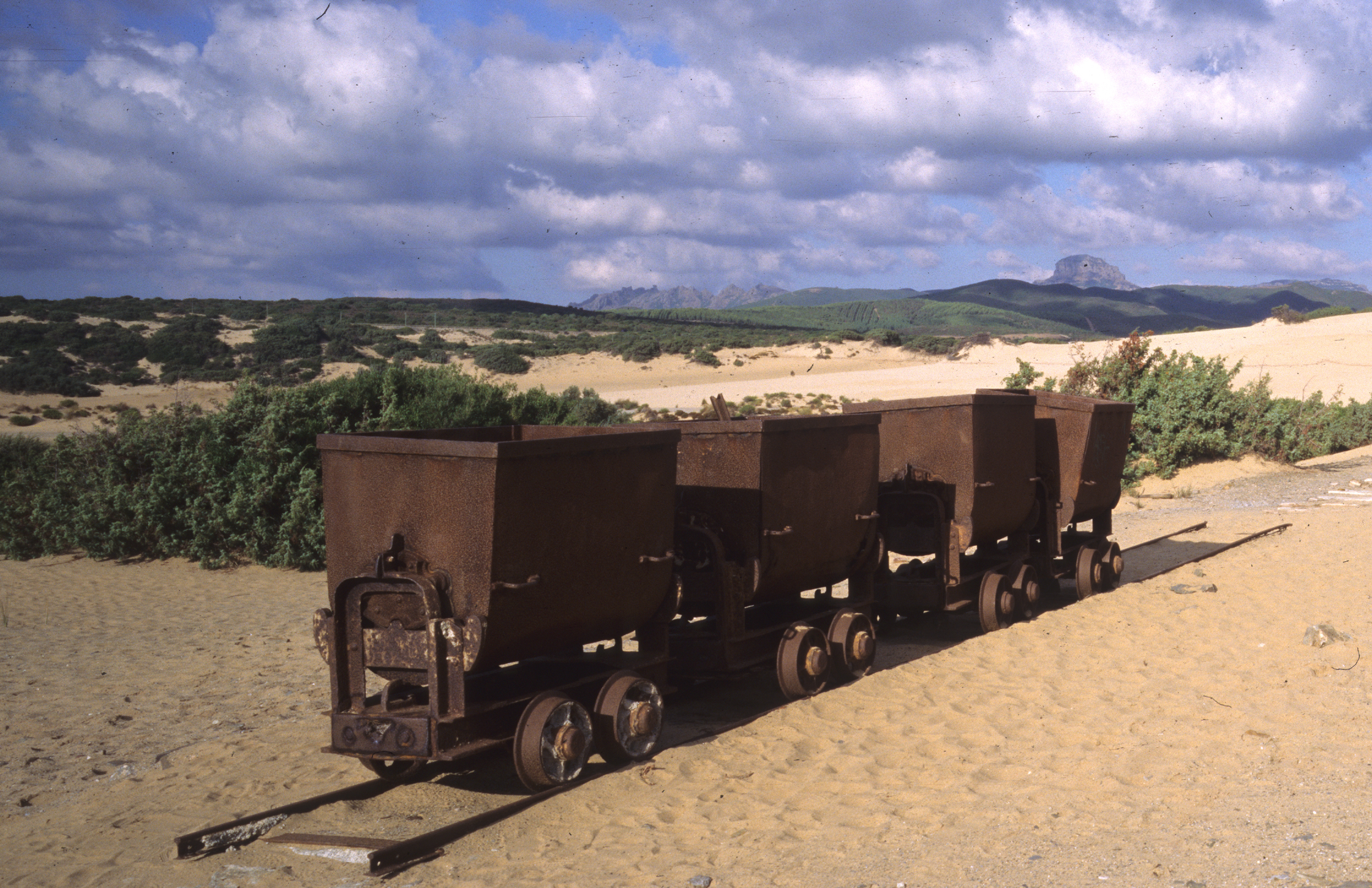 Old mine trolleys on Piscinas beach near Ingurtosu, Costa Verde, west Sardinia, Italy. On the background the Arcuentu mountain.